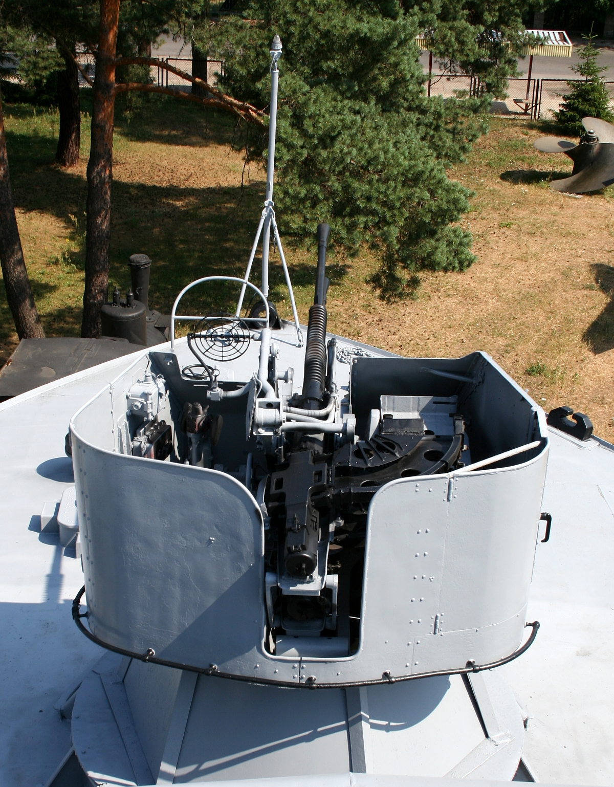 Naval gun 25 mm 2M3M on a Polish Project 664 class MTB ORP "Odważny" (in a museum, in a place of a correct 30 mm AK-230 gun)